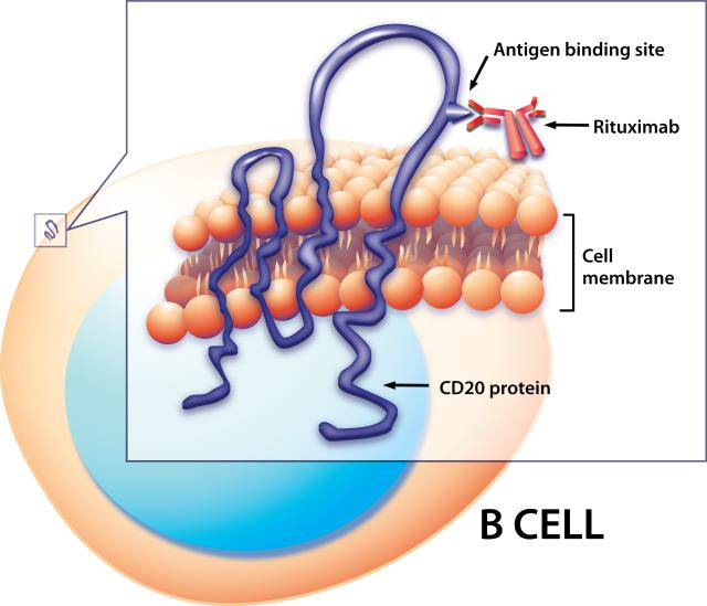 Computer-generated illustration of Rituximab binding to CD20 protein on B cell. Credit: NIAID